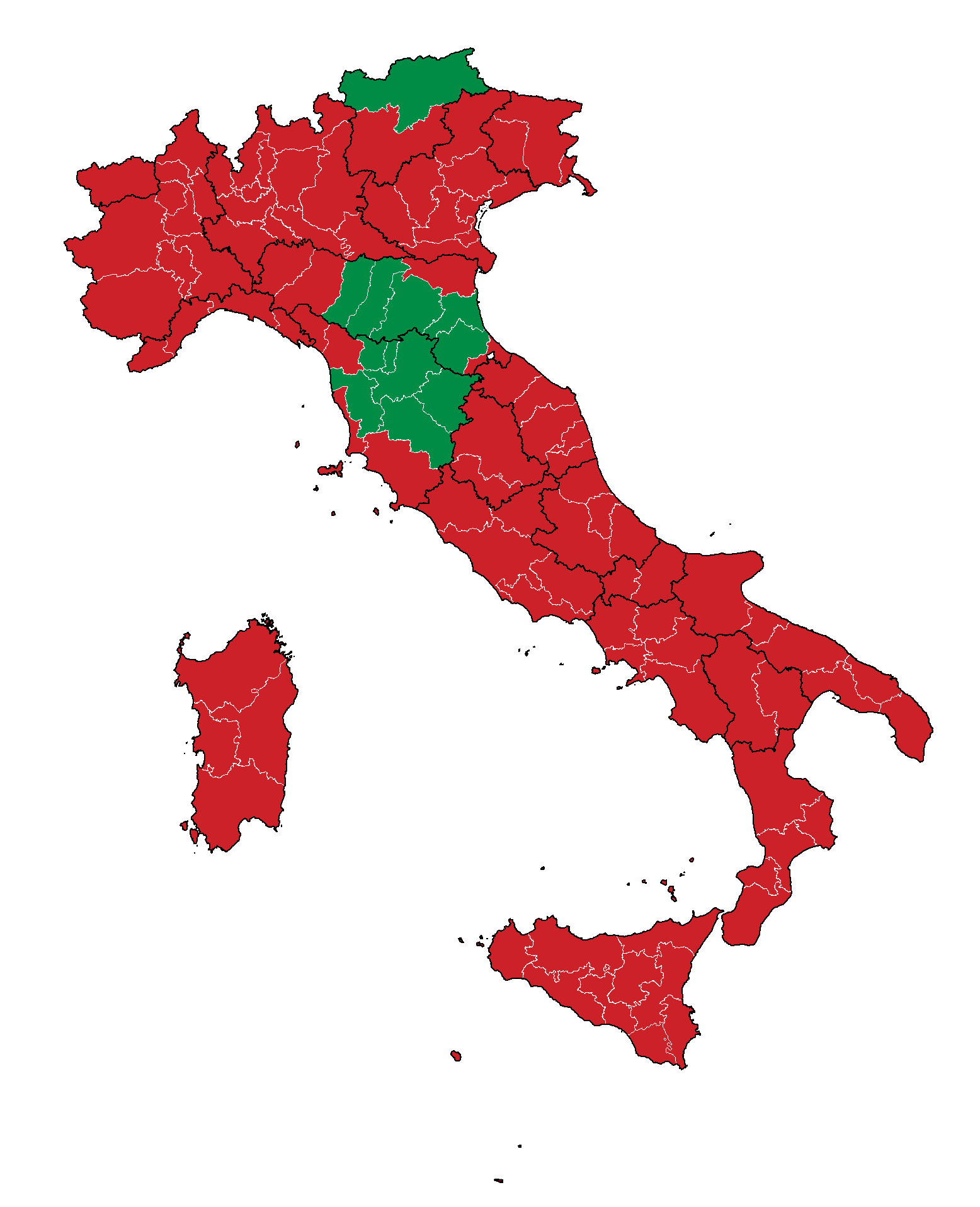 Map of the 107 provinces and metropolitan cities of the Italian Republic, painted according to the results of the 2016 constitutional referendum. Green means YES, red means NO. YES NO